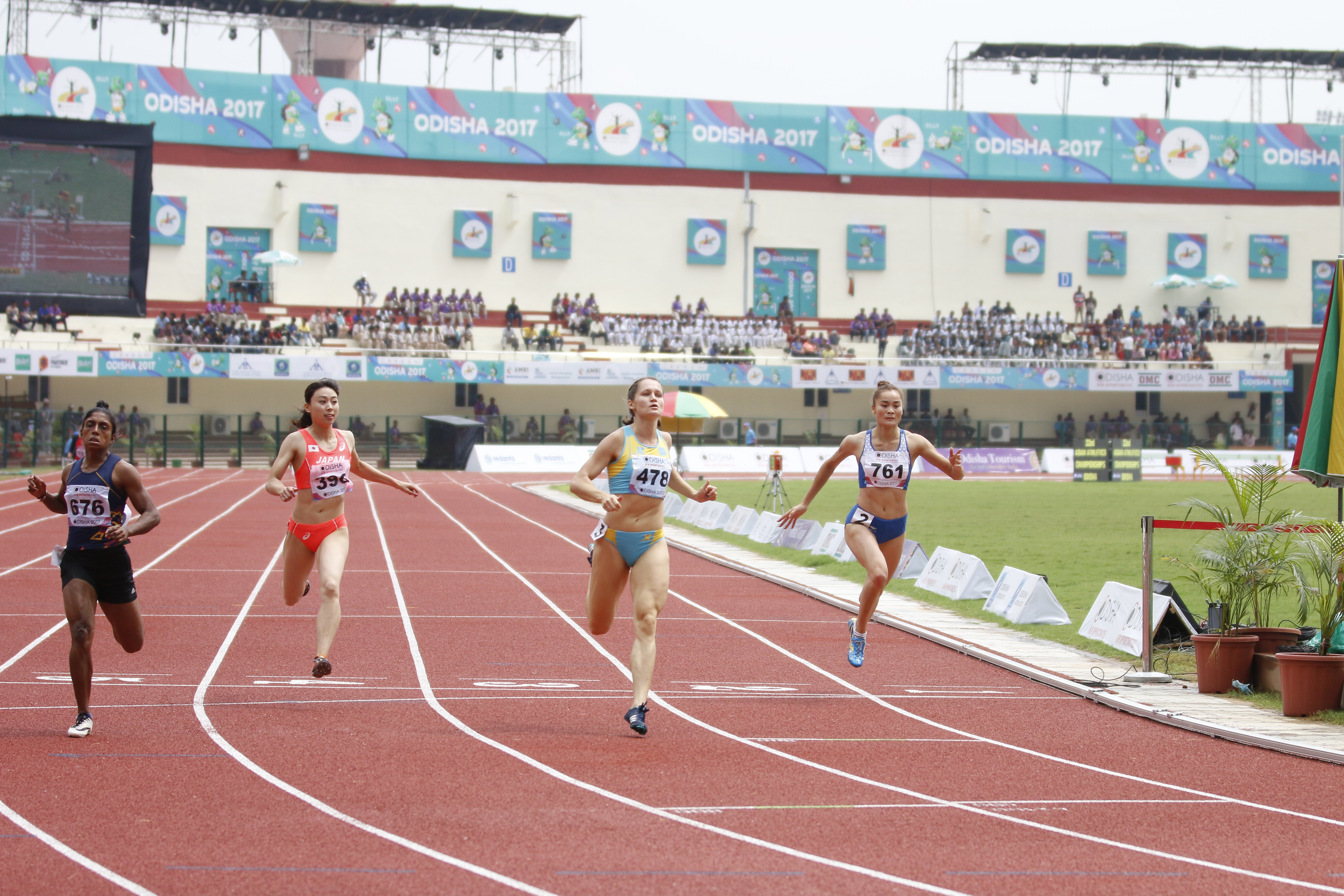 Quach Thi and athletes during 22nd Asian Athletics Championships in Bhubaneswar.